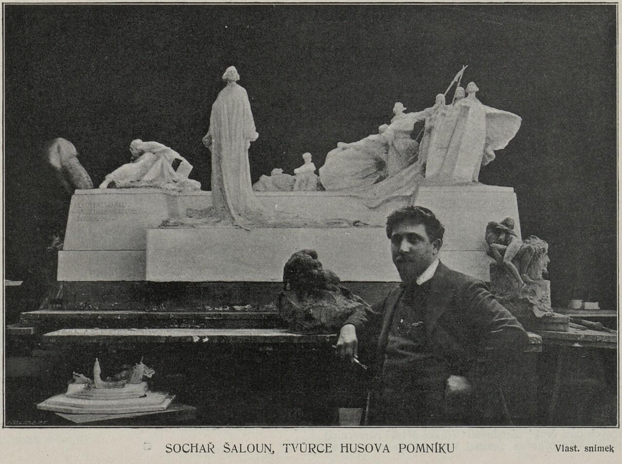 Czech sculptor Ladislav Šaloun, 1906